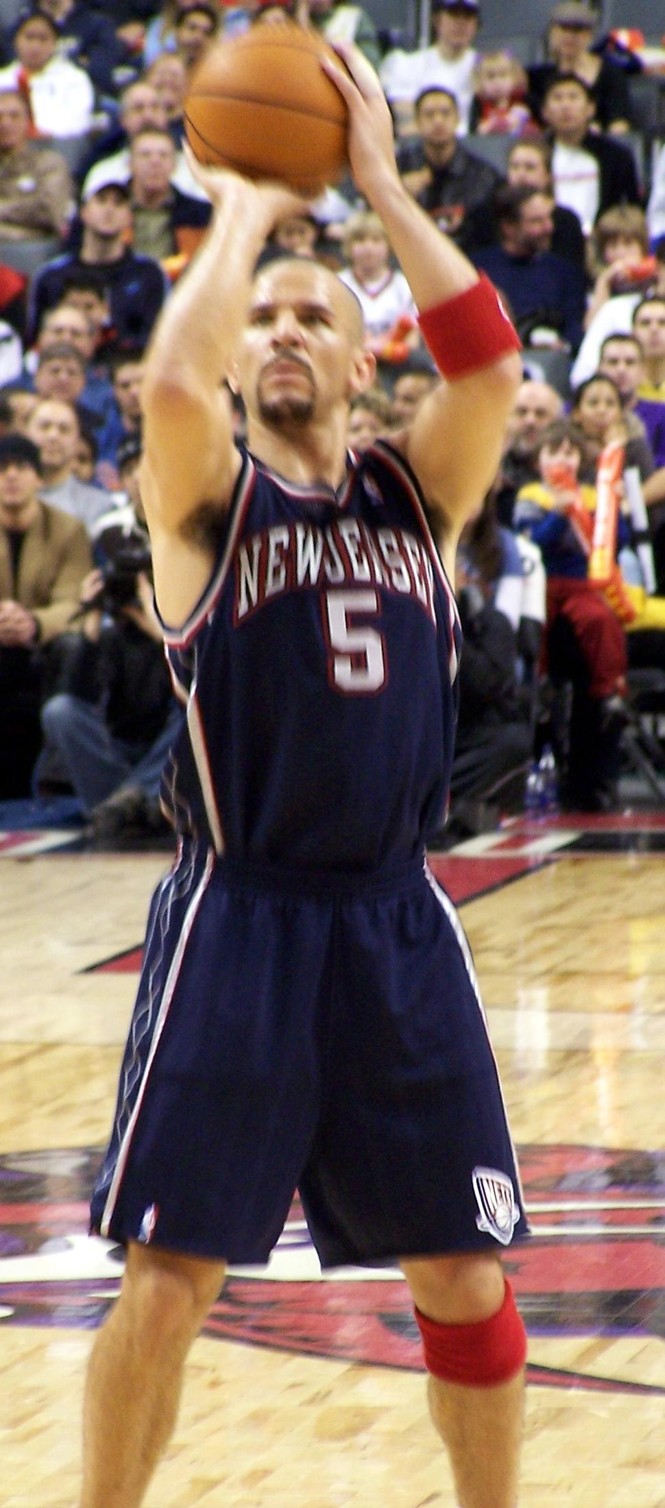 Jason Kidd at the free throw line.